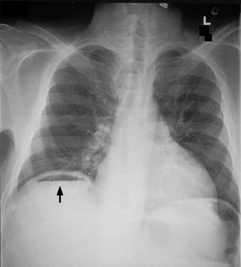 Pneumoperitoneum